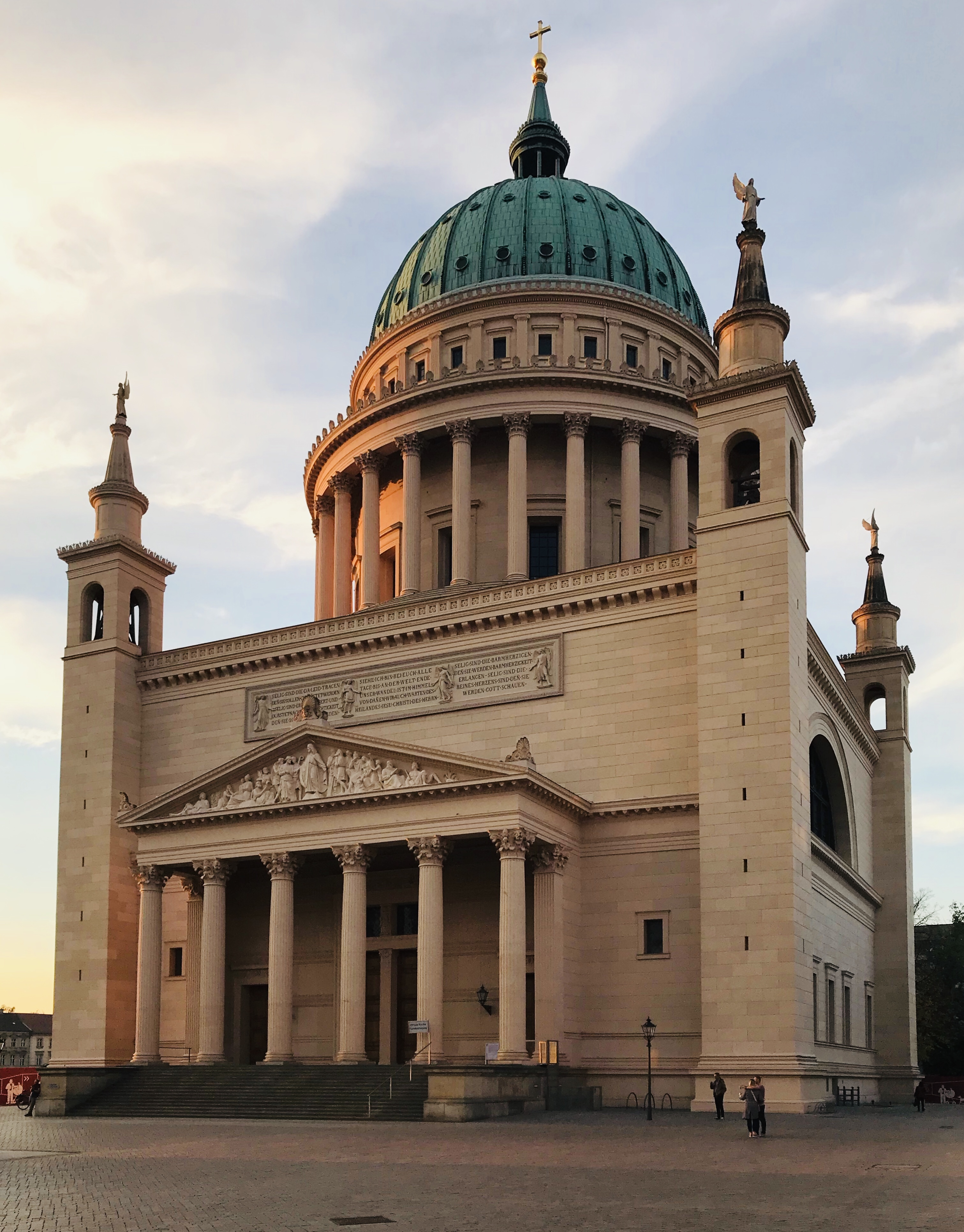 The St. Nikolai church with the reconstructed tympanon